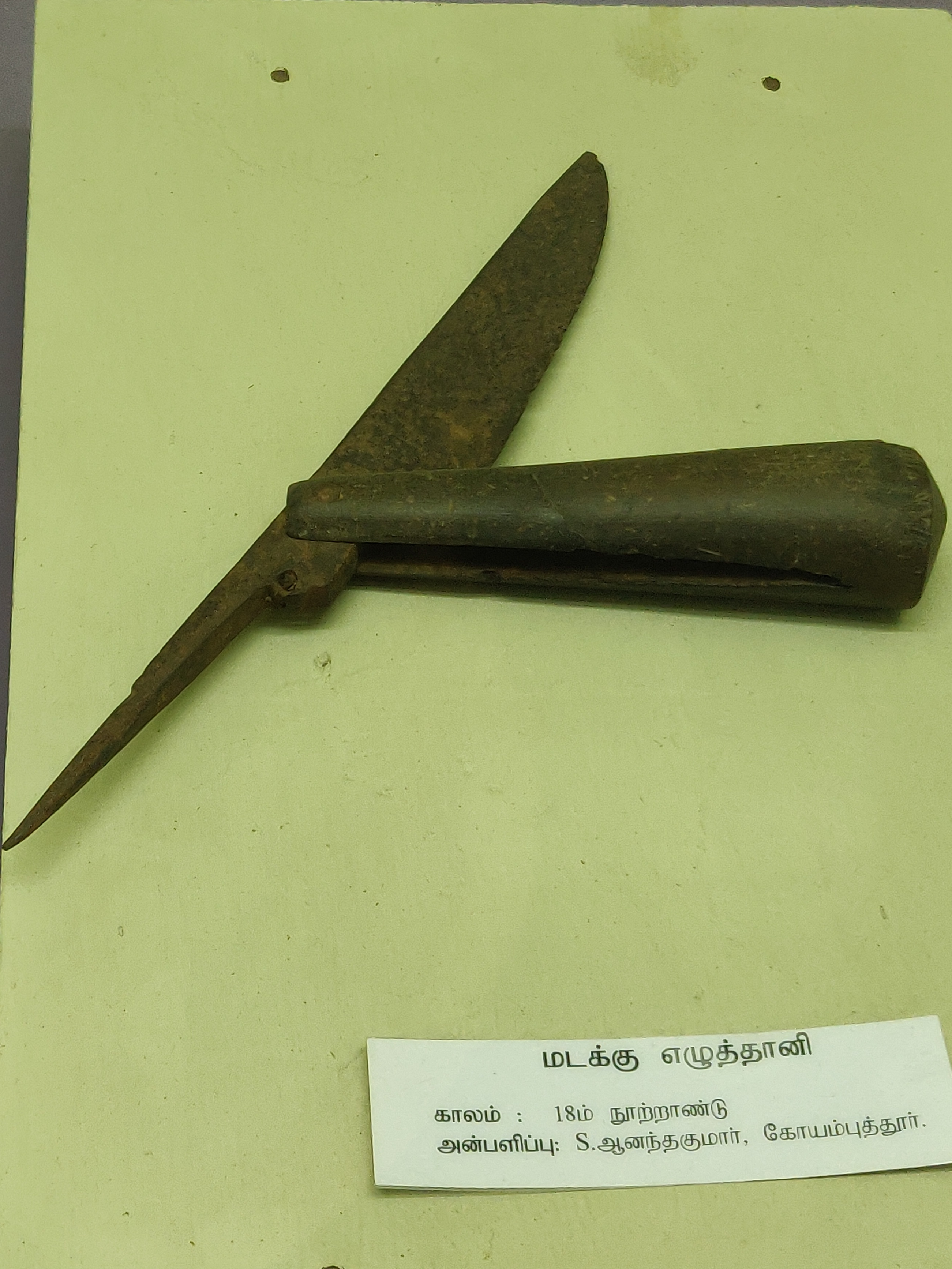 Exhibits in Government Museum, Coimbatore.